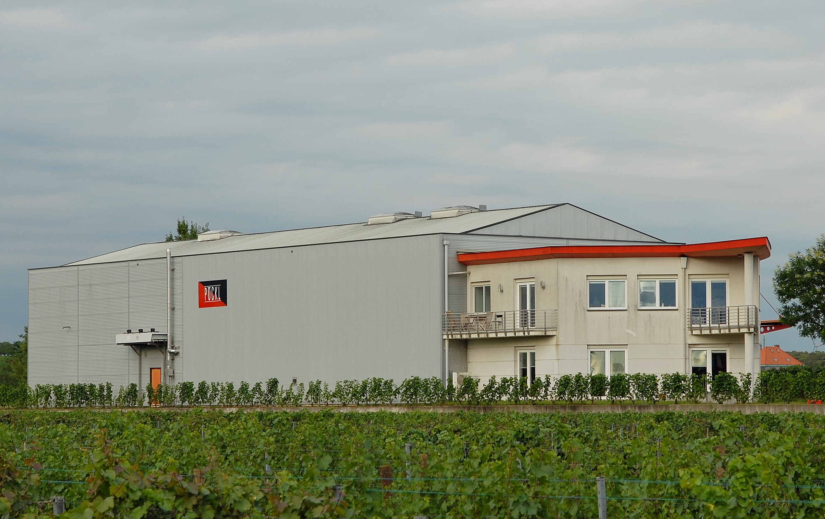 Weingut Pöckl, Mönchhof, 2012